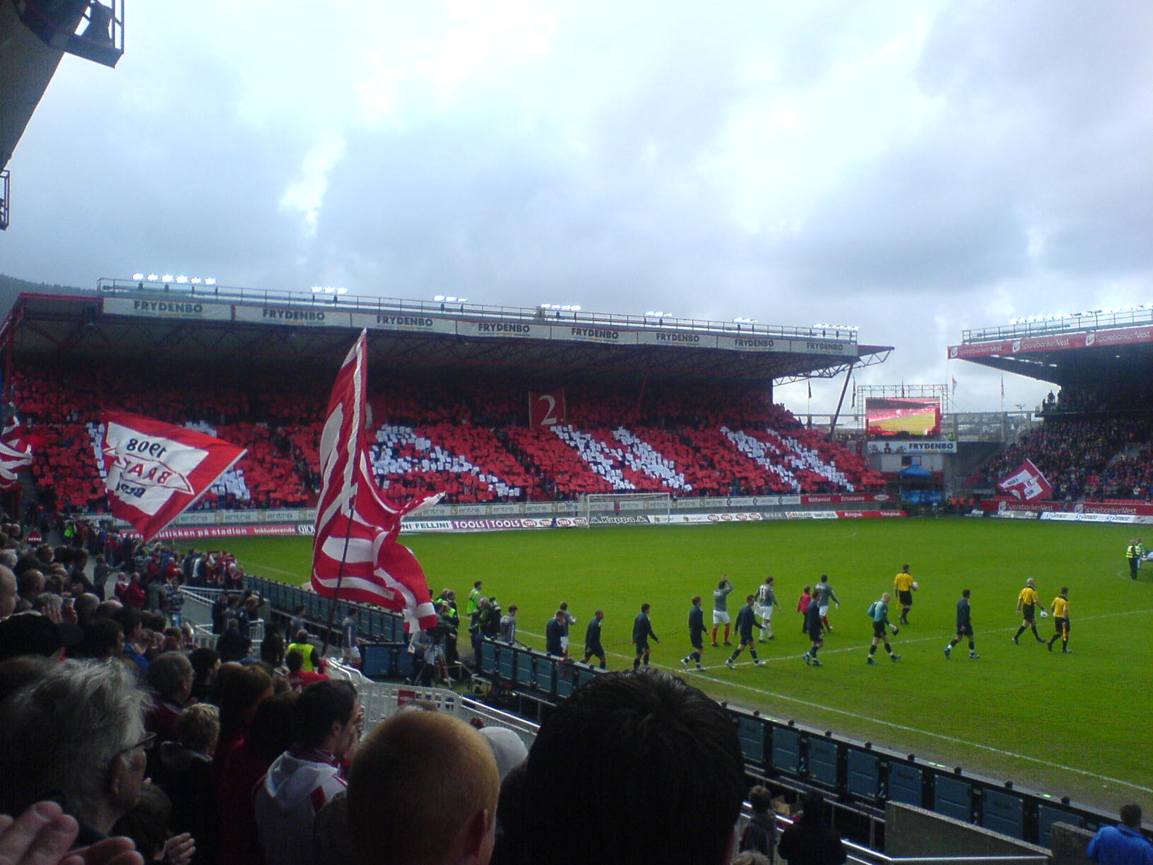 Brann Stadion, 16th of april 2007 (Brann vs. Strømsgodset 3-1)